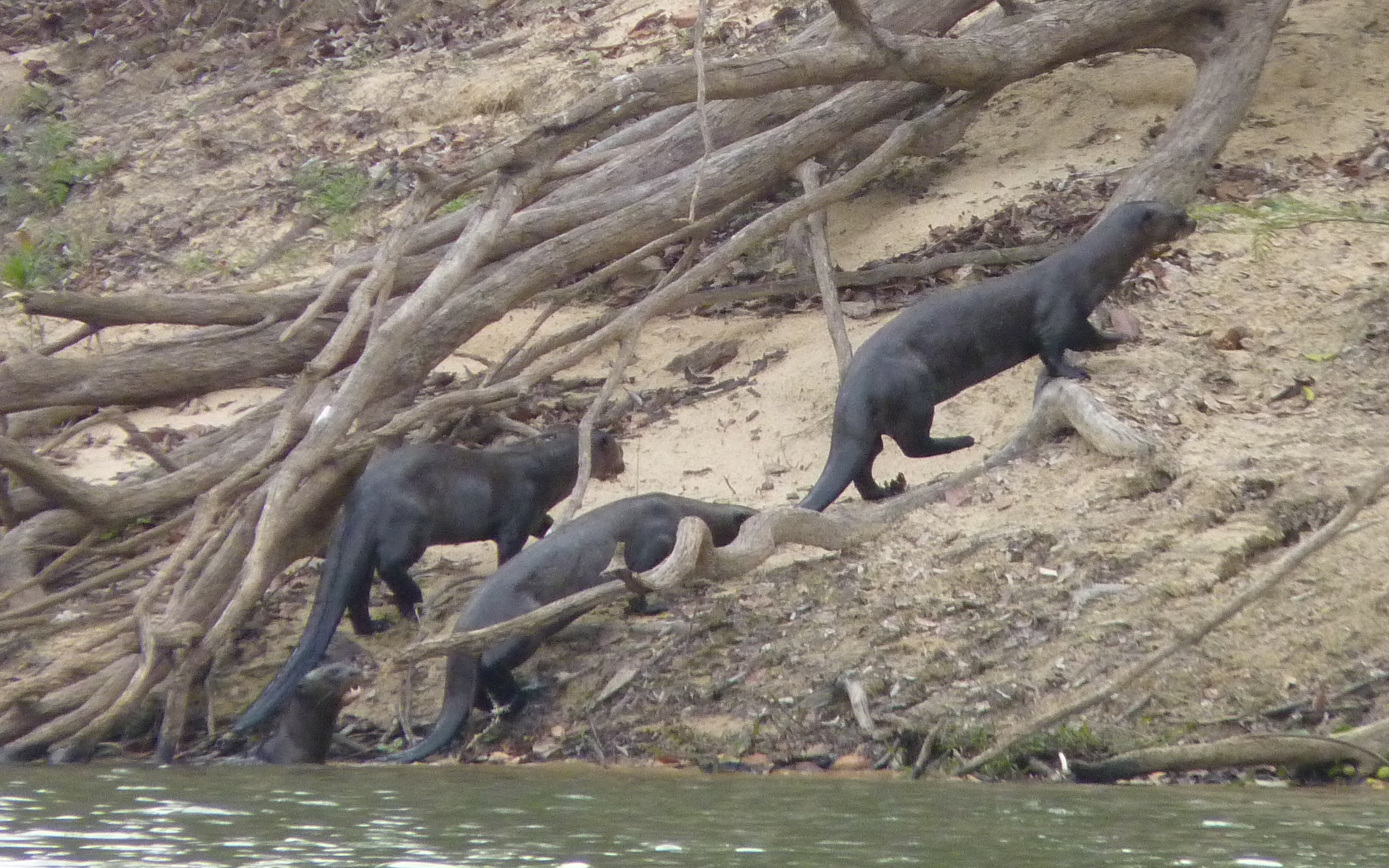 Four giant otters (Pteronura brasiliensis) emerge from the water on a riverbank in Cantão State Park, in the Araguaia wetlands of central Brazil. This picture was taken by researchers from the Instituto Araguaia, which has been studying this particular group of otters in Cantão since 2010. These four otters are part of a larger group, and emerged from the water at this spot in order to scent mark on the riverbank.